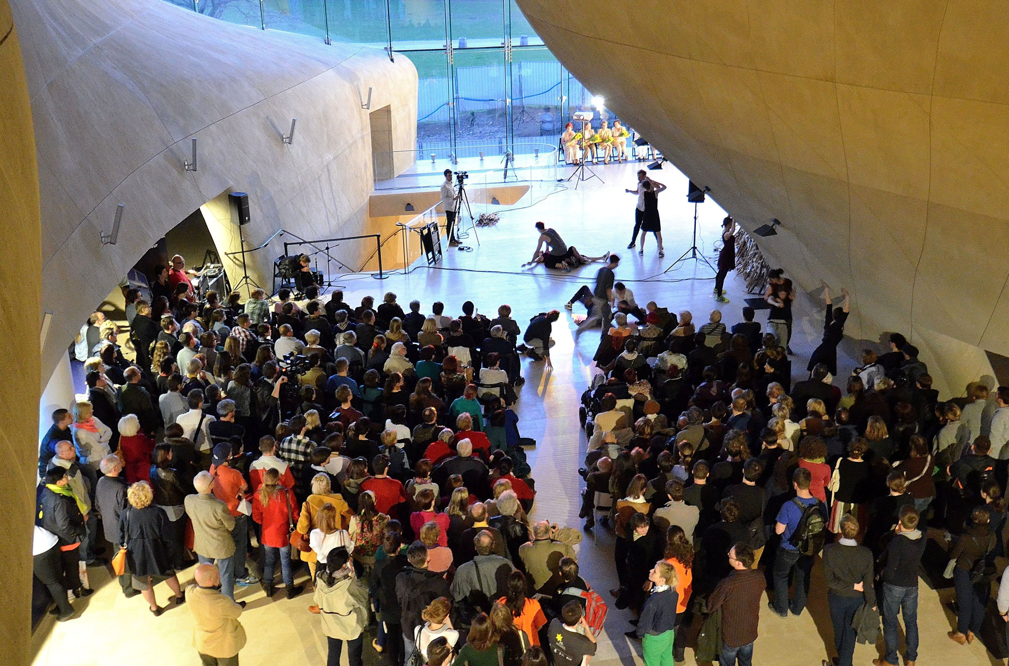 Performance "Maps of Memory". 70th Anniversary of the Warsaw Ghetto Uprising, Museum of the History of Polish Jews